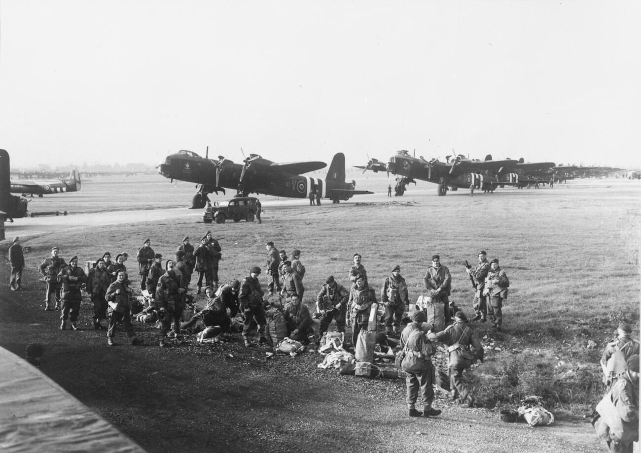 Operation MARKET I : the airborne operation to seize bridges between Arnhem and Eindhoven, Holland, (part of Operation MARKET GARDEN). Paratroops of 3rd Platoon, 21st Independent Parachute Company, assemble at RAF Fairford, Gloucestershire, UK in front of Short Stirling Mark IVs of 620 Squadron RAF parked on the perimeter track.